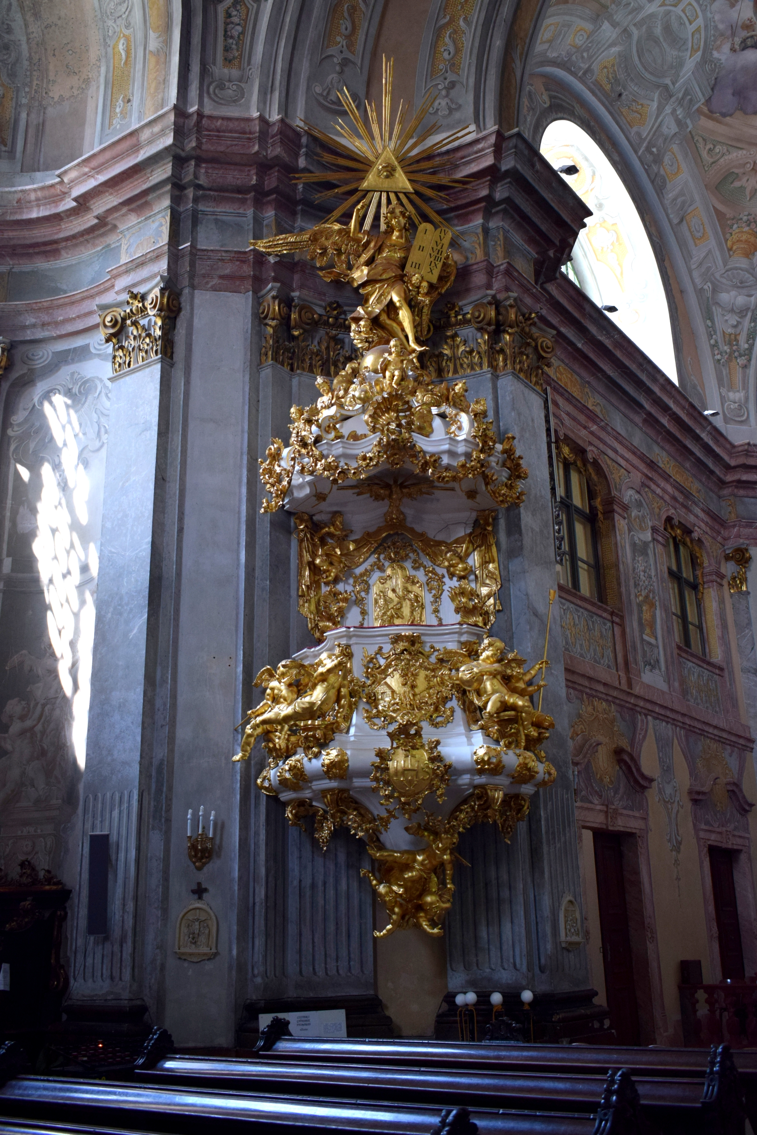 Late Baroque pulpit in the former Jesuit (later Cistercian) Church in Székesfehérvár. Made in 1749 by Károly Bebó (statues) and Caspar Fries (carpentry). White and gold colour scheme. Iconography: four cherubs with shepherd's scrip and symbols of the different aspects of Christ: shepherd's crook (the Good Shepherd), horn of salvation (the Saviour), breaking the bread (the Bread of Life) and grain shovel (the Judge), the first cherub is slumbering; the coat-of-arms of the Jesuit Order; the Good Shepherd (relief); Perfidy exposed (lower group with evil putti, one of them holding a mask and a horn); floral and rocaille decoration; the Baptism of Jesus (relief on the door); dove, cherubs (one of them holding a book), Archangel Michael standing on a globe with the Tablets of Stone, the Eye of Providence (abat-voix). This is a photo of a monument in Hungary. Identifier: 3829